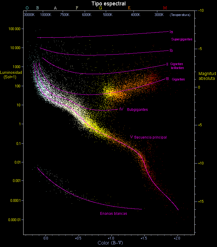 Hertzsprung-Russell diagram. A plot of luminosity (absolute magnitude) against the colour of the stars ranging from the high-temperature blue-white stars on the left side of the diagram to the low temperature red stars on the right side. Translated into spanish.